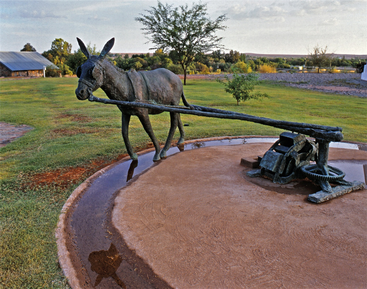 This media shows a South African Protected Site with SAHRA file reference 9/2/032/0018.